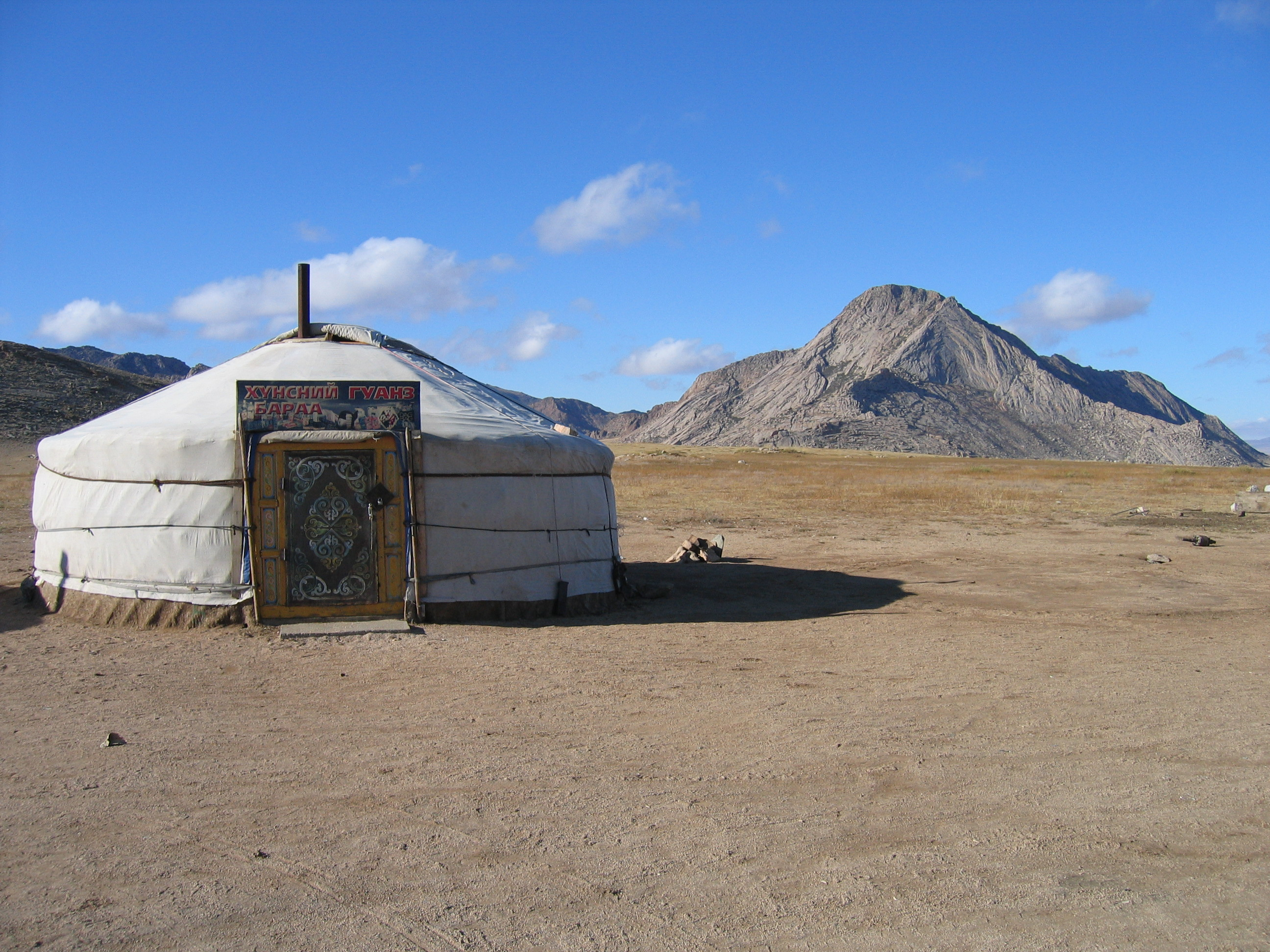 Mongolian yurt. the sign says (roughly) "Food, Fast food restaurant, General store"